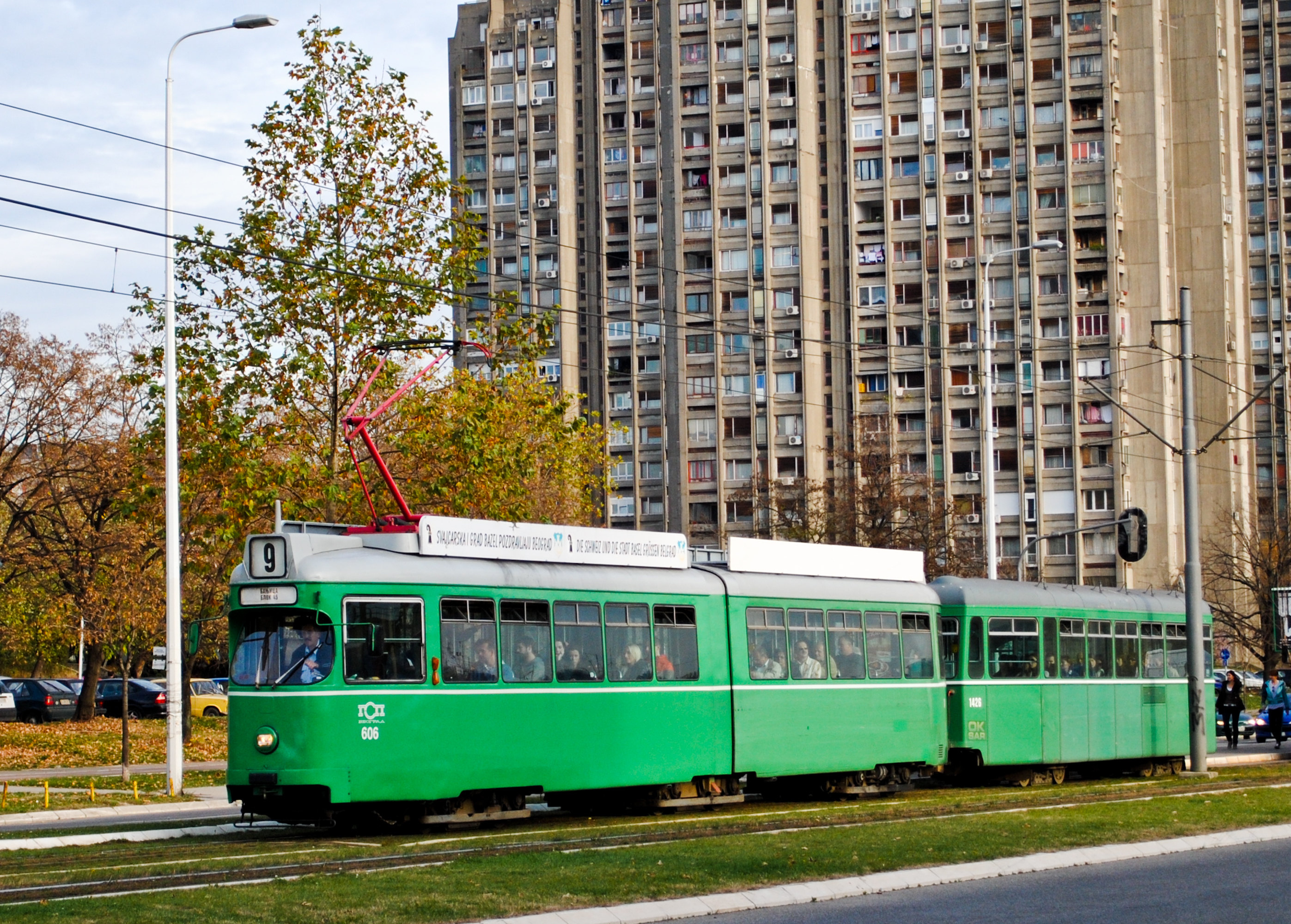 Duewag Be 4/6 in Belgrade